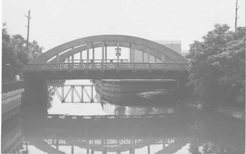 Side of the Second Street Bridge, which carried Second Street over Chester Creek in Chester, Pennsylvania, United States. Built in 1919, this bowstring arch bridge is listed on the National Register of Historic Places, despite having been destroyed since this picture was taken.